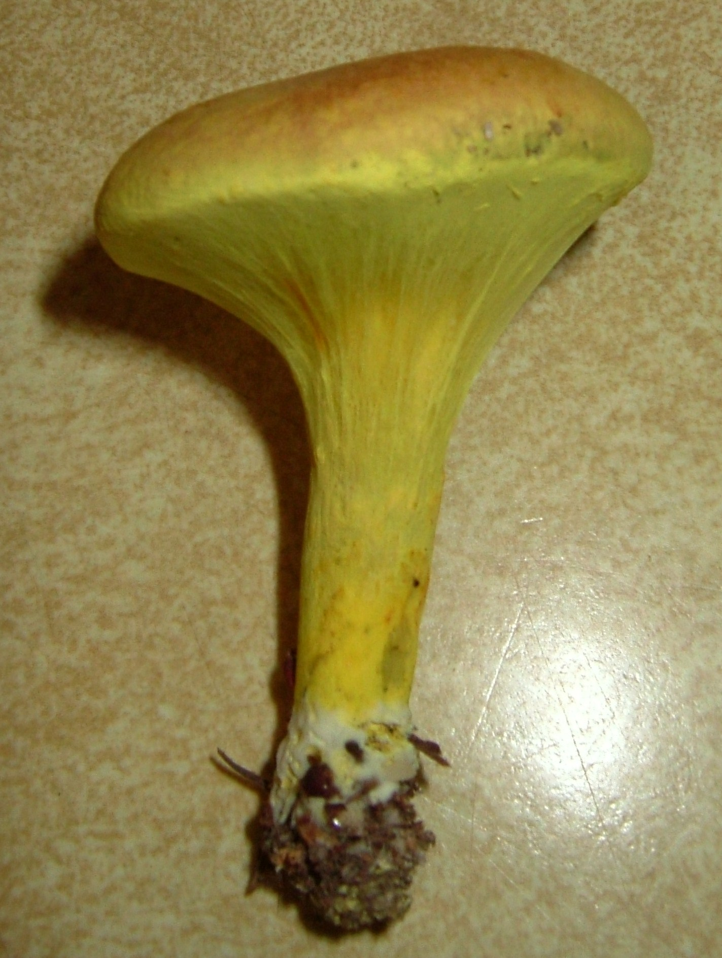 Pulveroboletus ravenelii (Berk. & M.A. Curtis) Murrill For more information about this, see the observation page at Mushroom Observer.